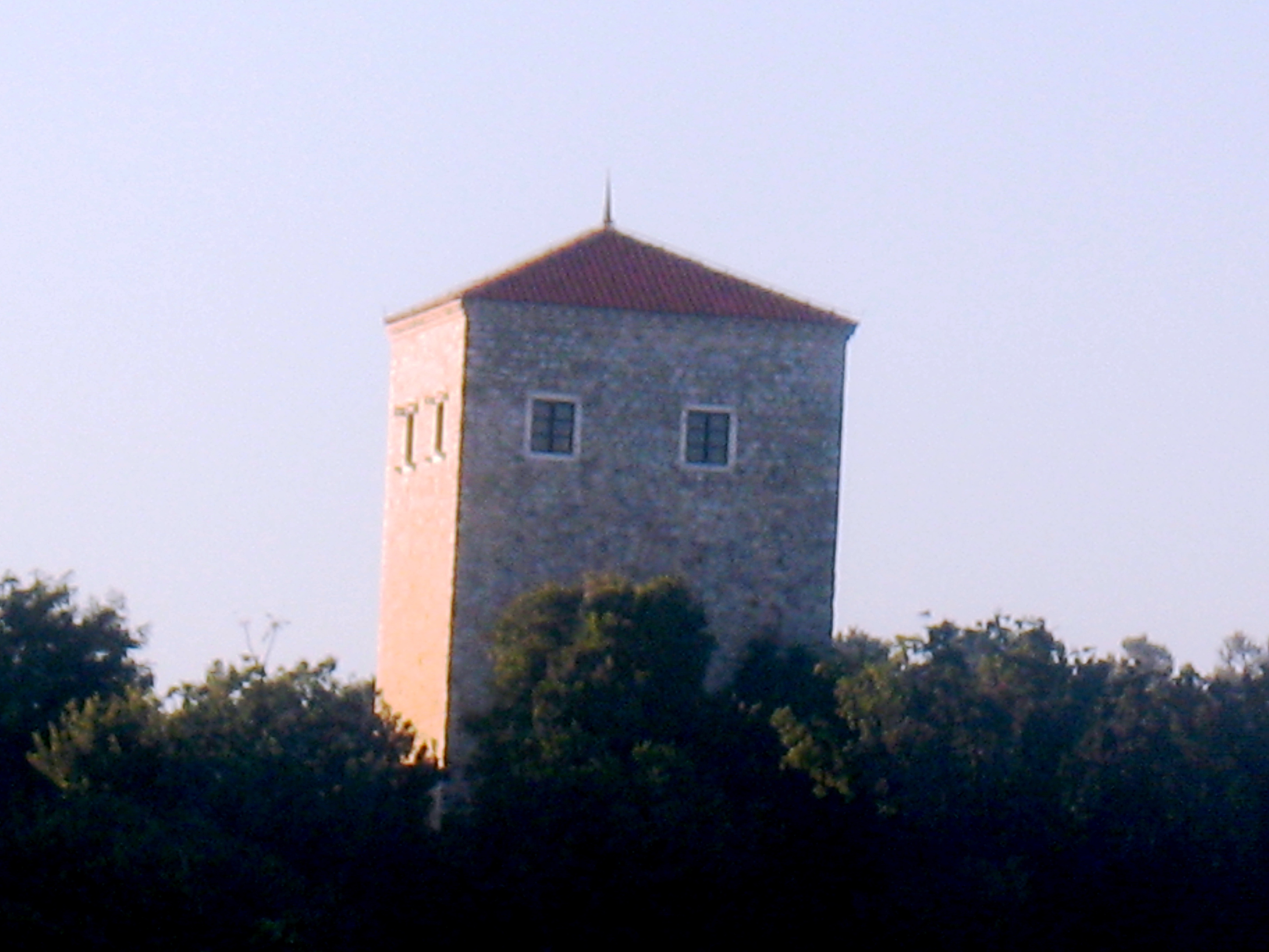 The Kulla e Ballshajve as seen from Cape of Suka.